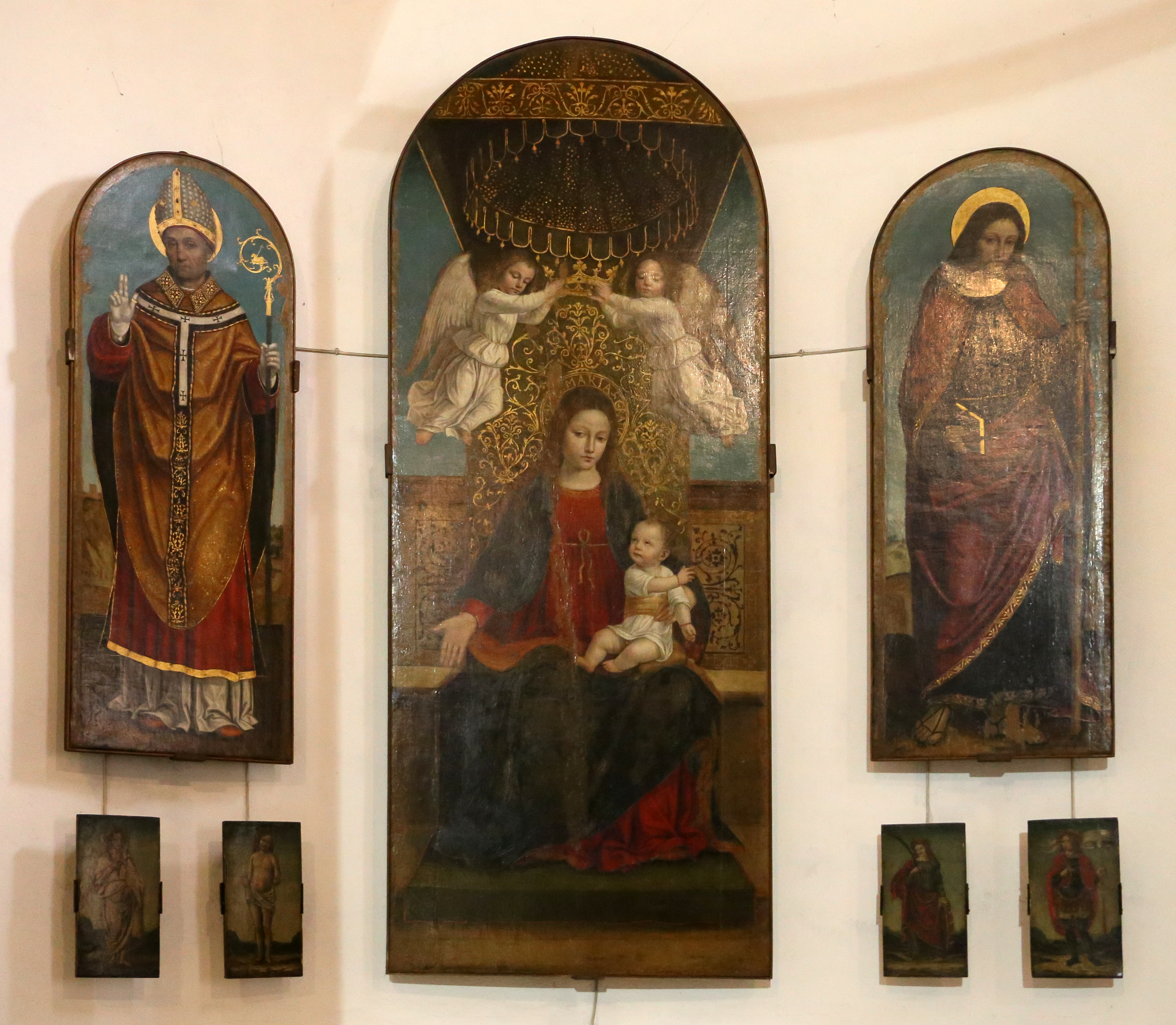 Sant'Eustorgio (Milan) - Chapels